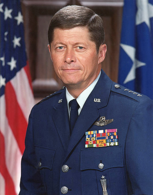 General Thomas Ryan, USAF